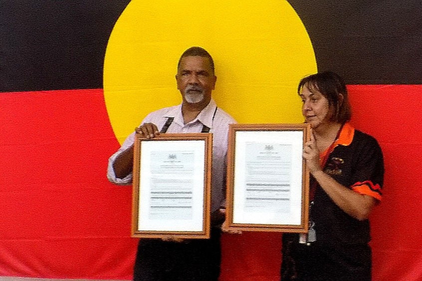 Chairperson Vincent Mundraby (right) and deputy chairperson of the Combined Gungangganji-Maningalbay Yidinji land trust receive inalienable freehold title deeds to own original country @ Yarrabah, 21 December 2015